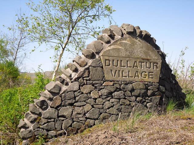 Dullatur Village This large sign can be found at the entrance to Dullatur Village from the approach from Cumbernauld.